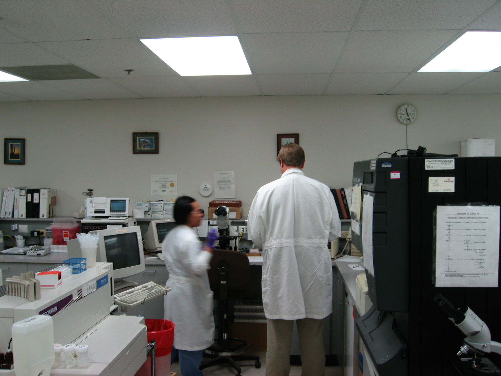 Holy Rosary Hospital Laboratory, two technicians and analyzers: chemistry (on the left), hematology (black on the right), blood gases (blue screen in the background) and Triage® for heart enzymes.